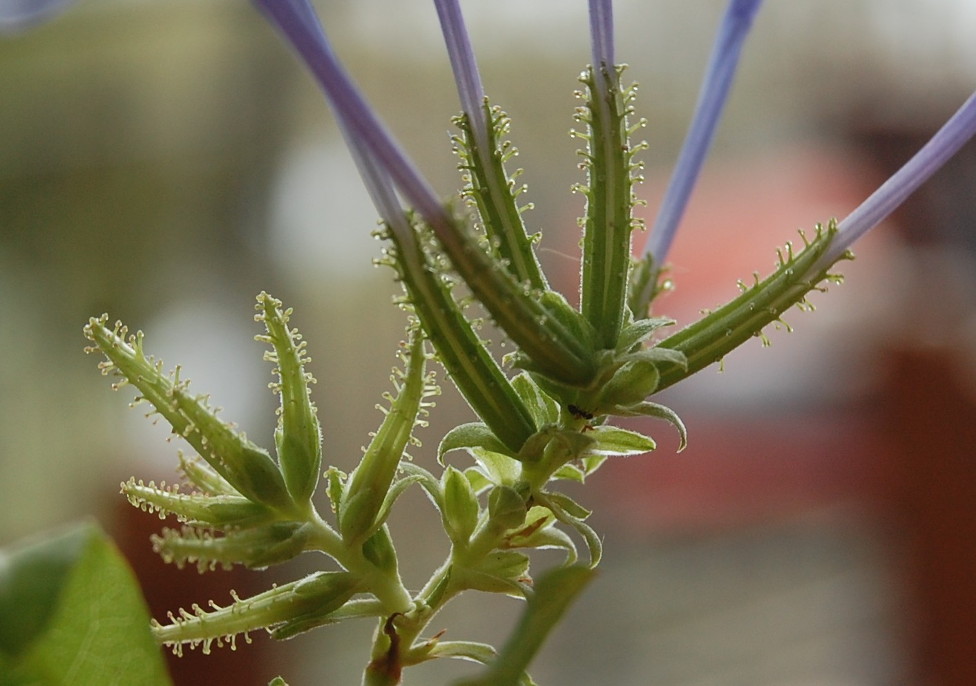 Plumbago sp. flower - detail